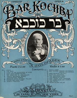 Libretto of the play Bar-Kochba from the yiddish playwright Abraham Goldfaden.